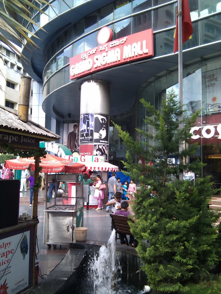 Grand Sigma Mall front